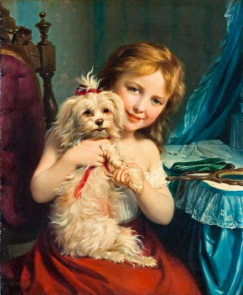 A young girl with a bichon frisé. Oil on canvas. 65.3 x 53.3 cm